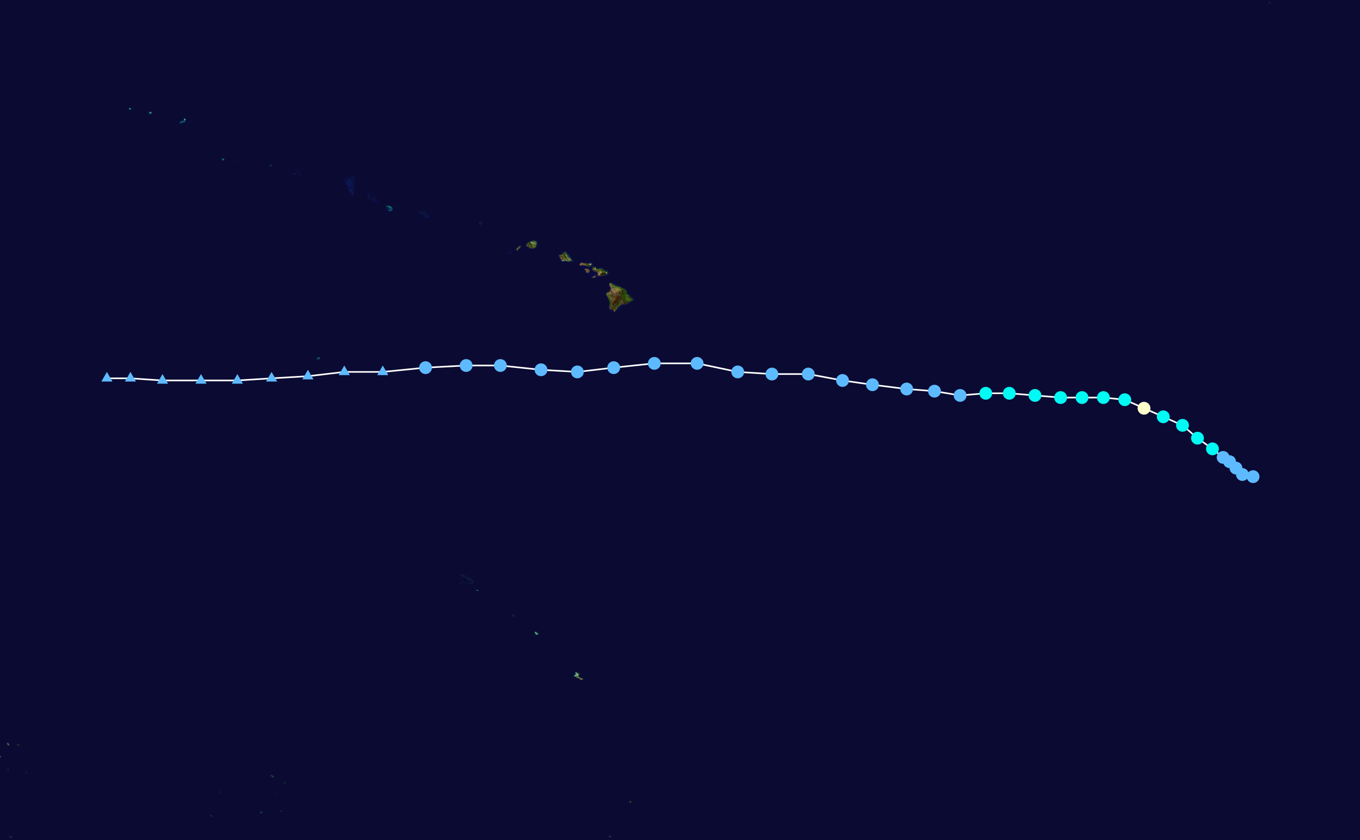 Track map of Hurricane Cosme of the 2007 Pacific hurricane season. The points show the location of the storm at 6-hour intervals. The colour represents the storm's maximum sustained wind speeds as classified in the Saffir–Simpson scale (see below), and the shape of the data points represent the nature of the storm, according to the legend below. Saffir–Simpson scale Tropical depression≤38 mph≤62 km/h Category 3111–129 mph178–208 km/h Tropical storm39–73 mph63–118 km/h Category 4130–156 mph209–251 km/h Category 174–95 mph119–153 km/h Category 5≥157 mph≥252 km/h Category 296–110 mph154–177 km/h Unknown Storm type Tropical cyclone Subtropical cyclone Extratropical cyclone / Remnant low / Tropical disturbance / Monsoon depression